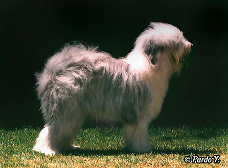 Old English Sheepdog, Bobtail